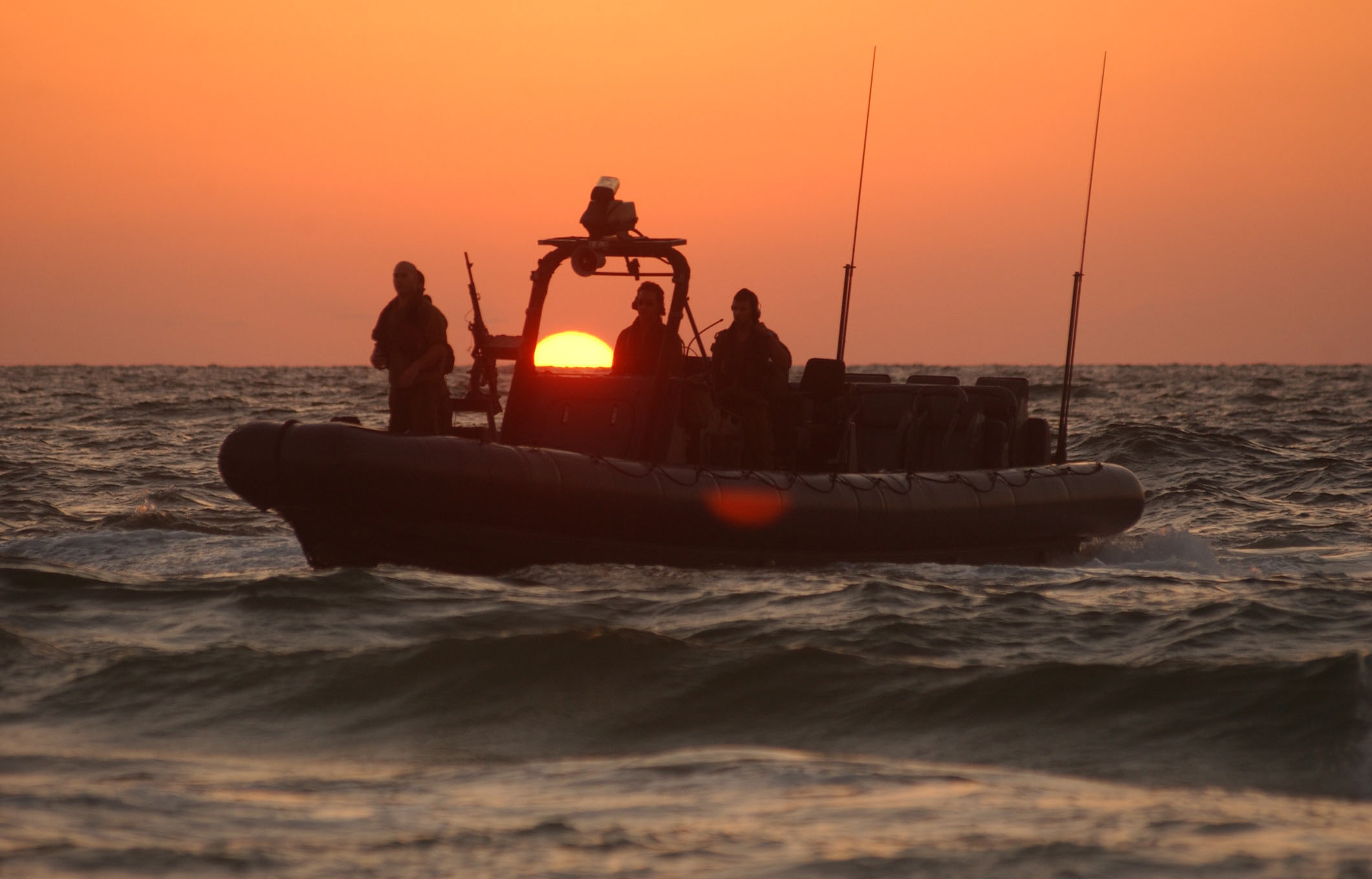 August 18, 2005. IDF soldiers approaching the Israeli community of Kfar Hayam by sea as part of the Gaza Disengagement, which occurred during the summer of 2005.